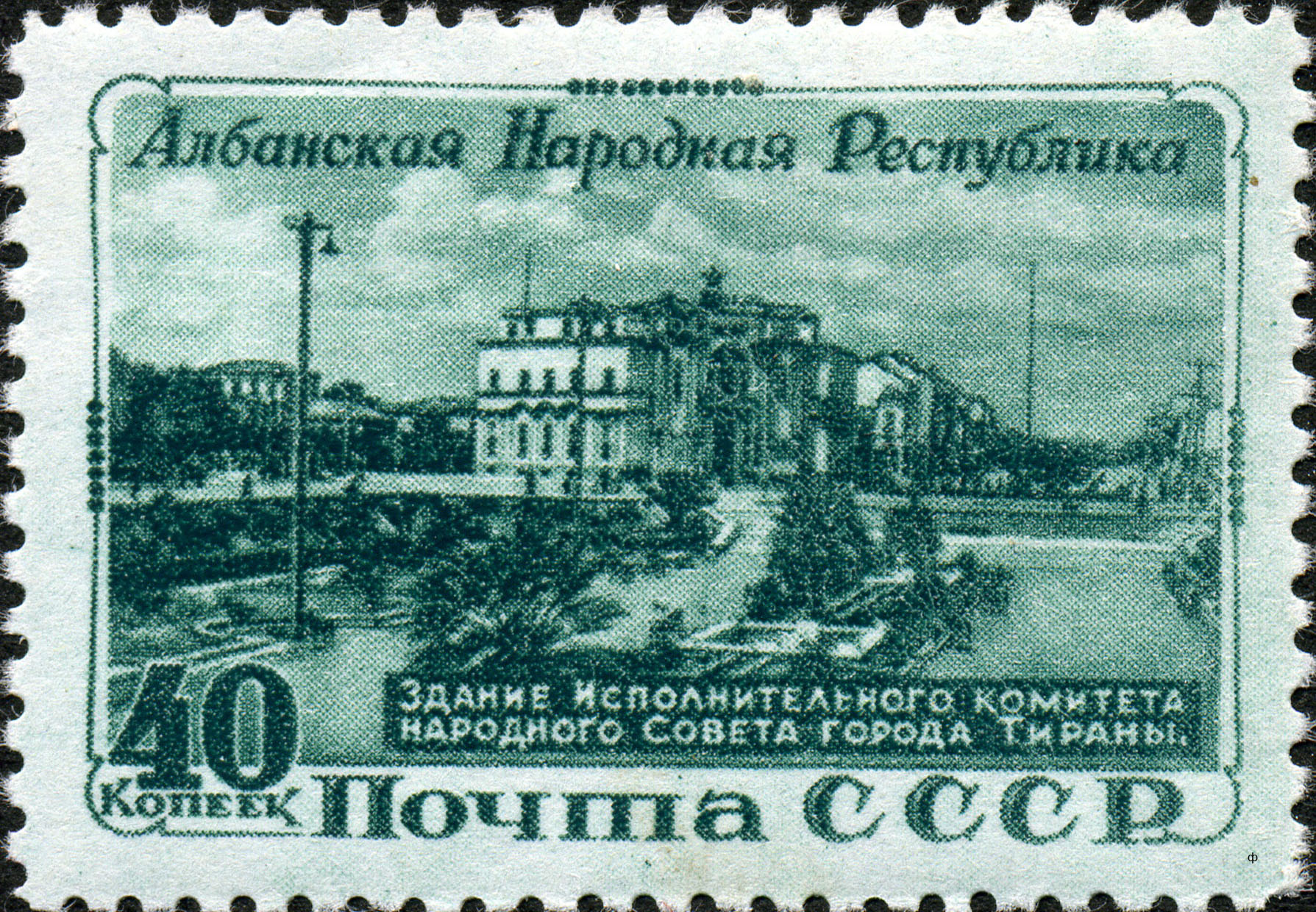 Postage stamp of Russia. The People's Republic of Albania, 1951